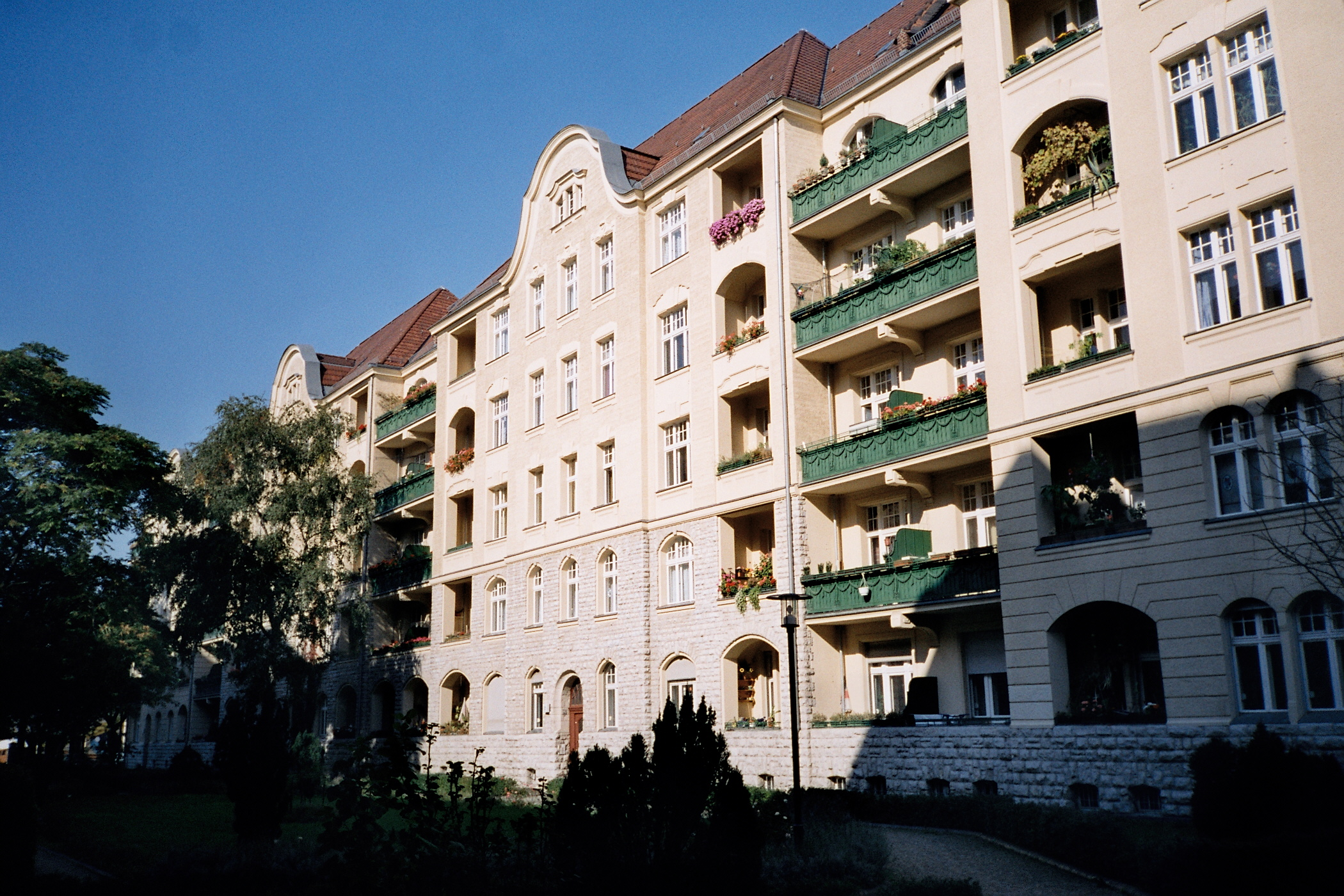 Description: Helenenhof in Berlin-Friedrichshain. Source: self-made. I release it into the public domain.